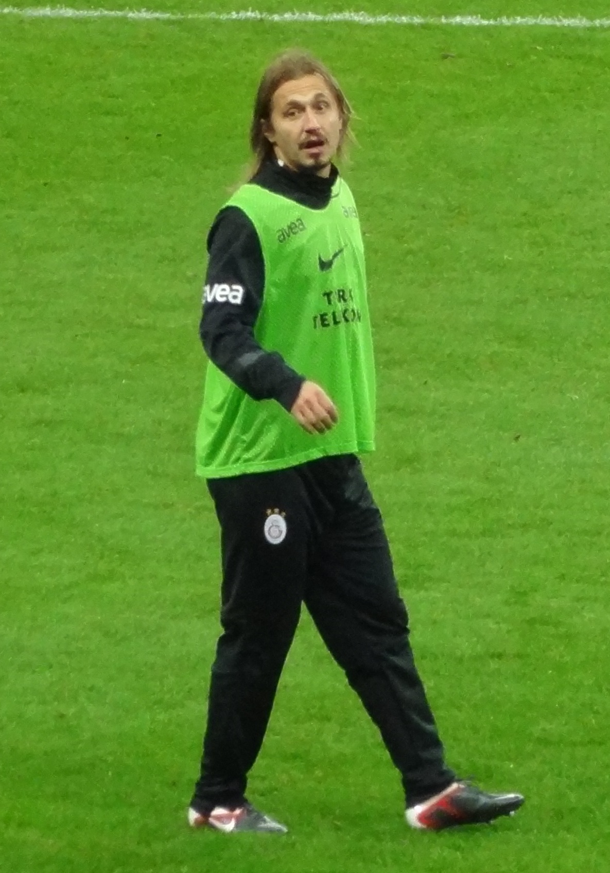 ayhan akman playing for galatasaray on 26th november